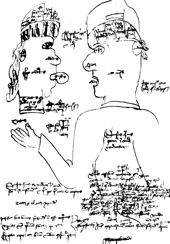 From the lecture notes of Olaus Johannis Gutho, who was a student at Uppsala University 1477-1486. According to the website from which the image was taken, "The two men arguing are Aristotle and his medieval interpreter, the german philosopher and scientist Albertus Magnus (1200-1280)."